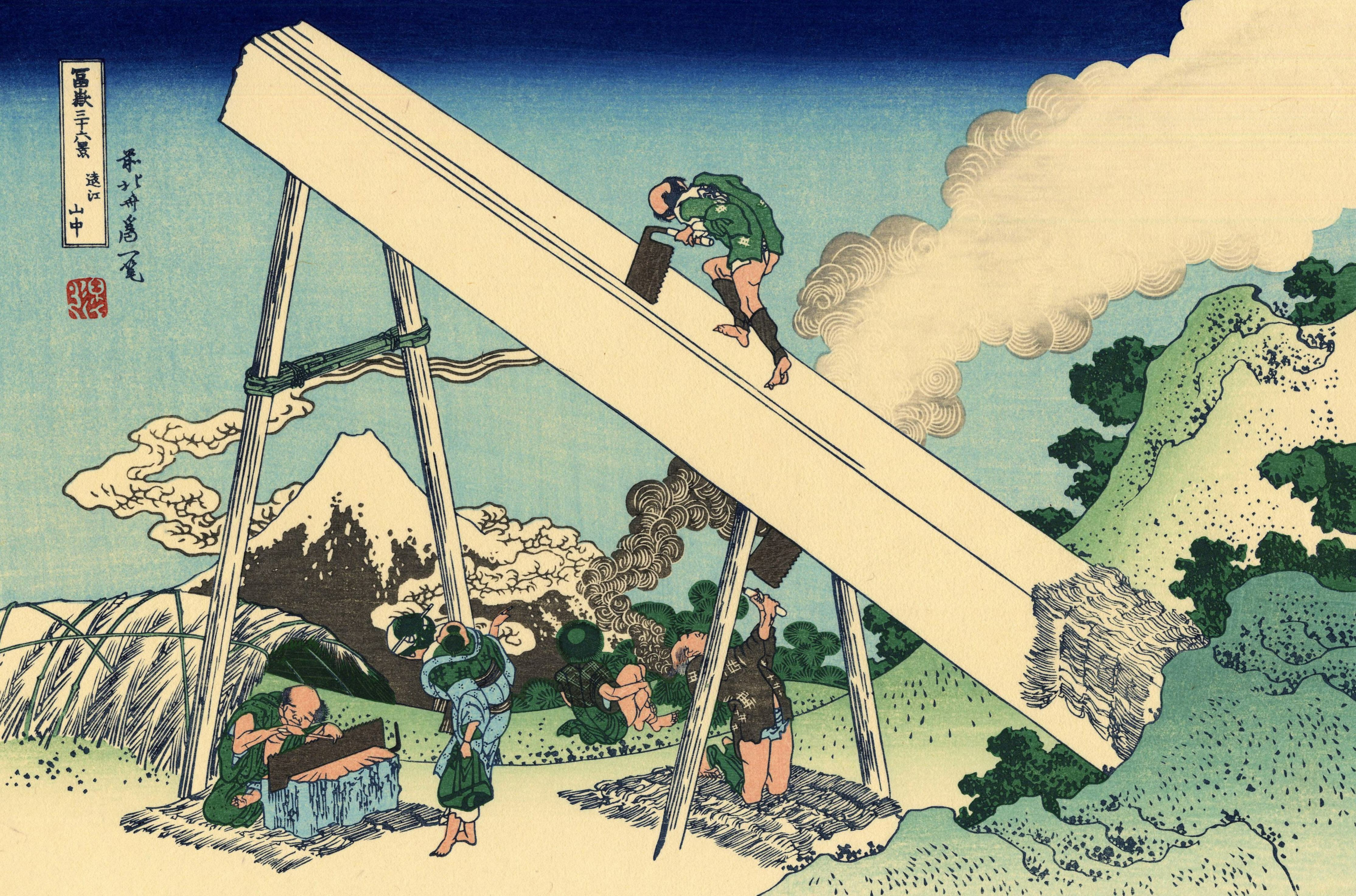 Part of the series Thirty-six Views of Mount Fuji, no. 38, 2nd additional woodcut.